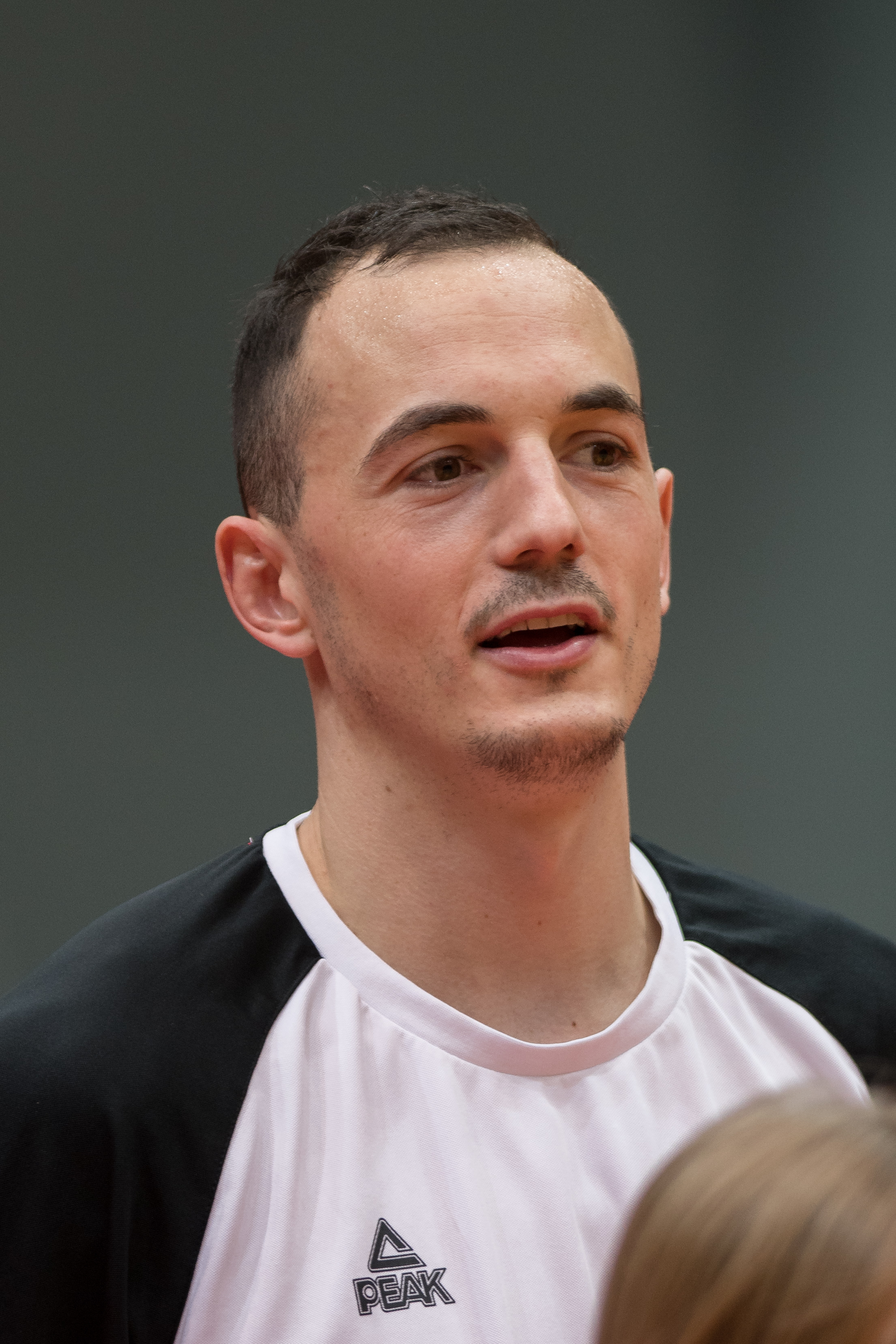 FIBA World Championship Qualification 2019 Austria vs. Germany 2017-11-27 Multiversum Schwechat. Picture shows Karsten Tadda (GER)